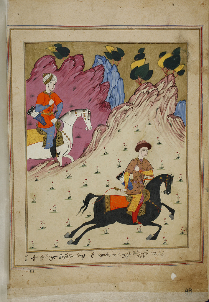 An illustration to Shota Rustaveli's poem The Knight in the Panther's Skin from the 17th manuscript.